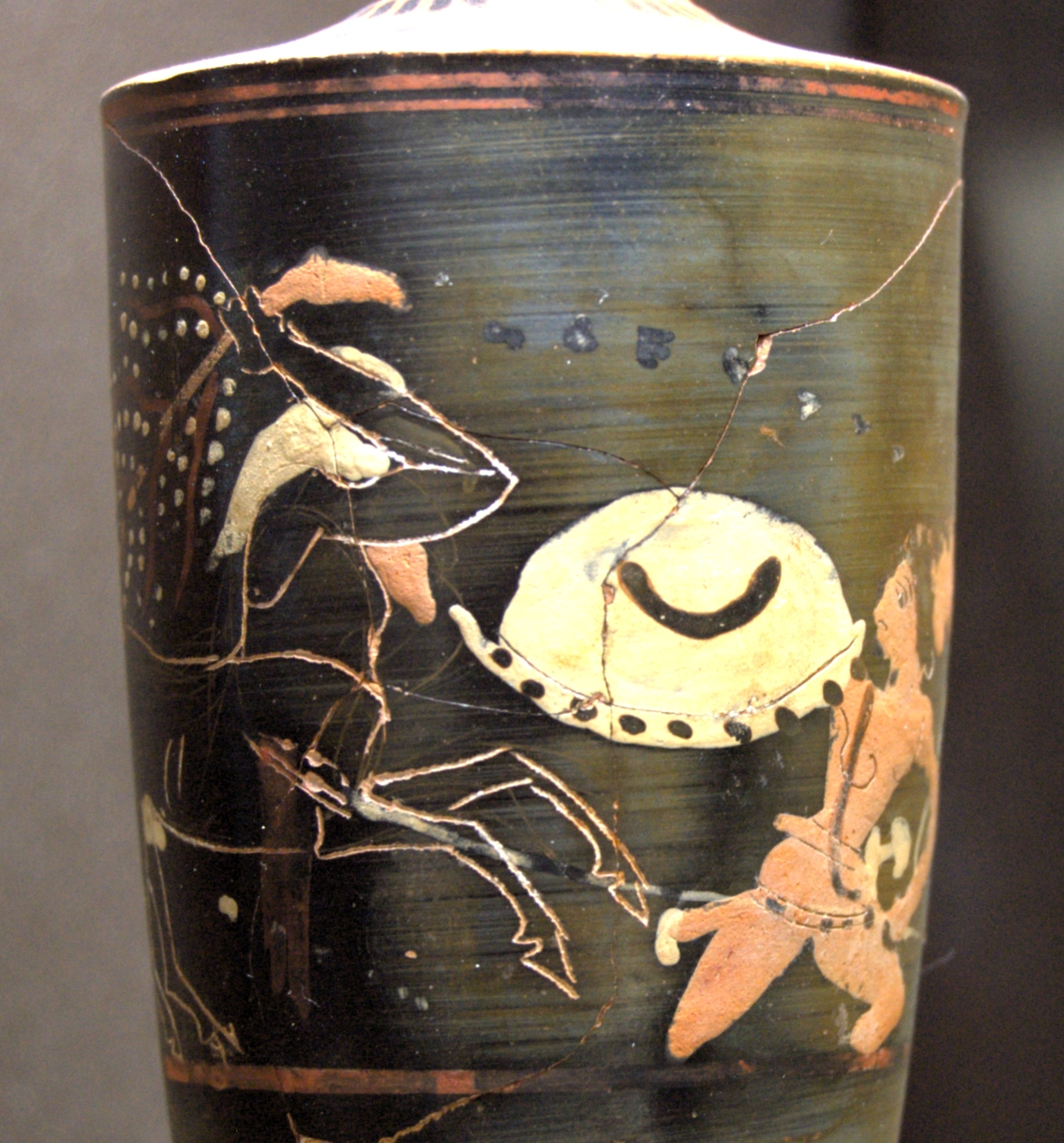 Caeneus fighting with a centaur. Attic lekythos with decoration in superposed colours, ca. 500–490 BC.